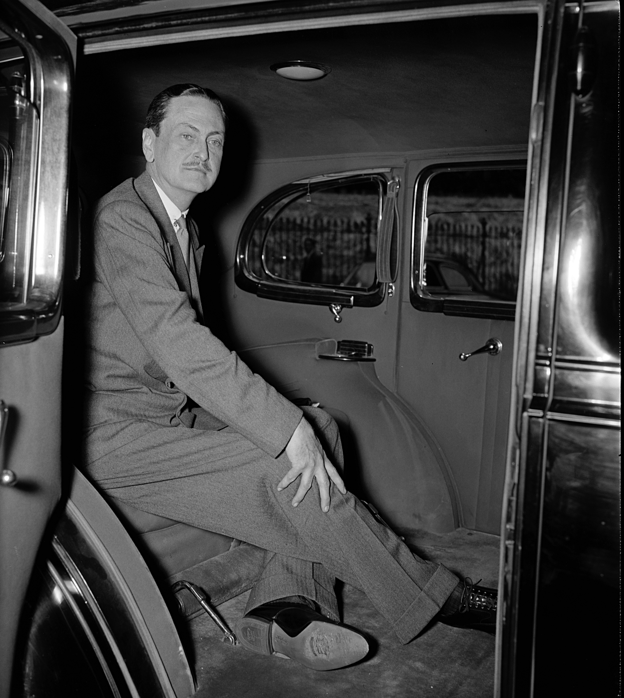 Alexander Comstock Kirk, United States diplomat